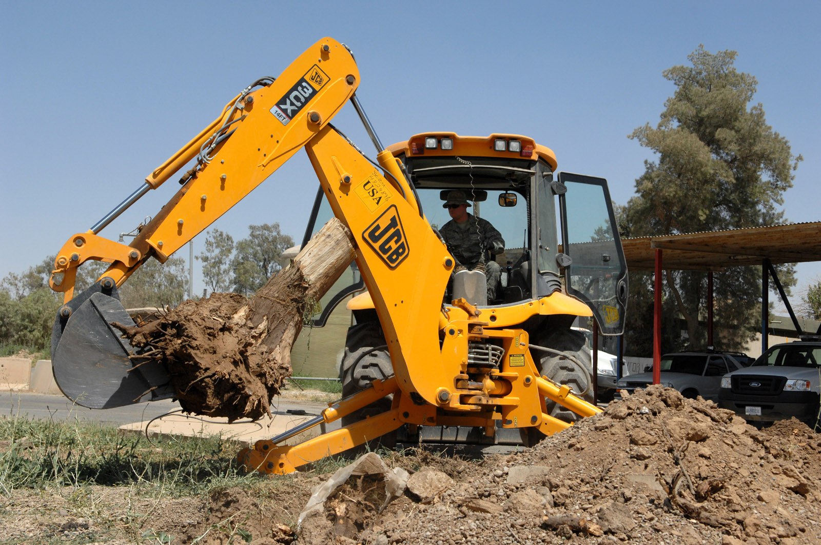 Rear view of a JCB 3CX showing the backhoe being employed to remove a tree stump. Horizontal stabilizers are deployed to prevent the vehicle from tipping laterally when the arm is extended.